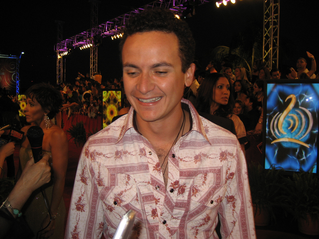 Colombian singing sensation Fonseca on Red Carpet, Lo Nuestro Awards, Miami, FL